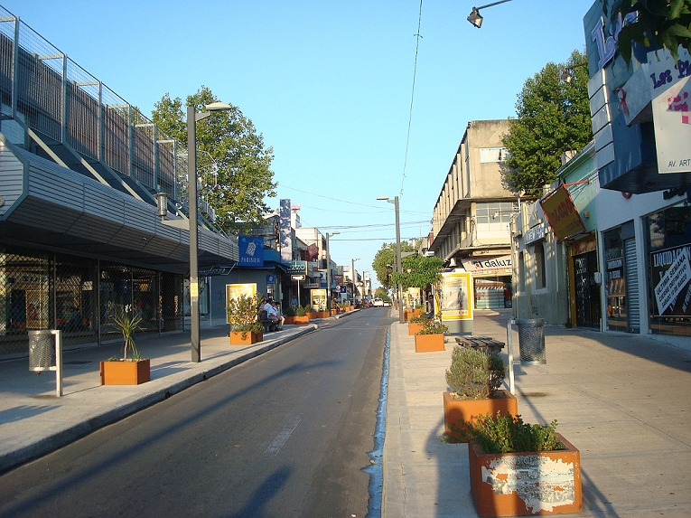 Avenida General José Artigas - central commercial street of Las Piedras, Canelones, Uruguay.